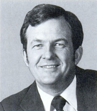 Richard H. Stallings, U.S. Representative from Idaho